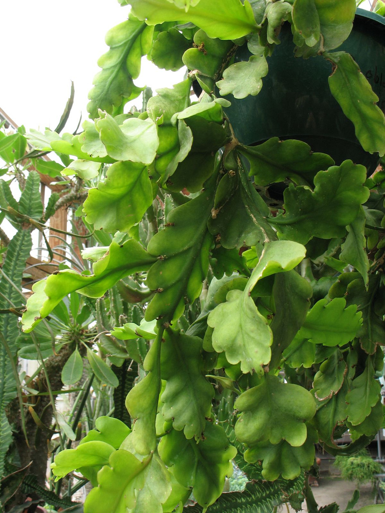 Rhipsalis oblonga; syn. Rhipsalis crispimarginata. Photographed at Meadowbrook Farm.